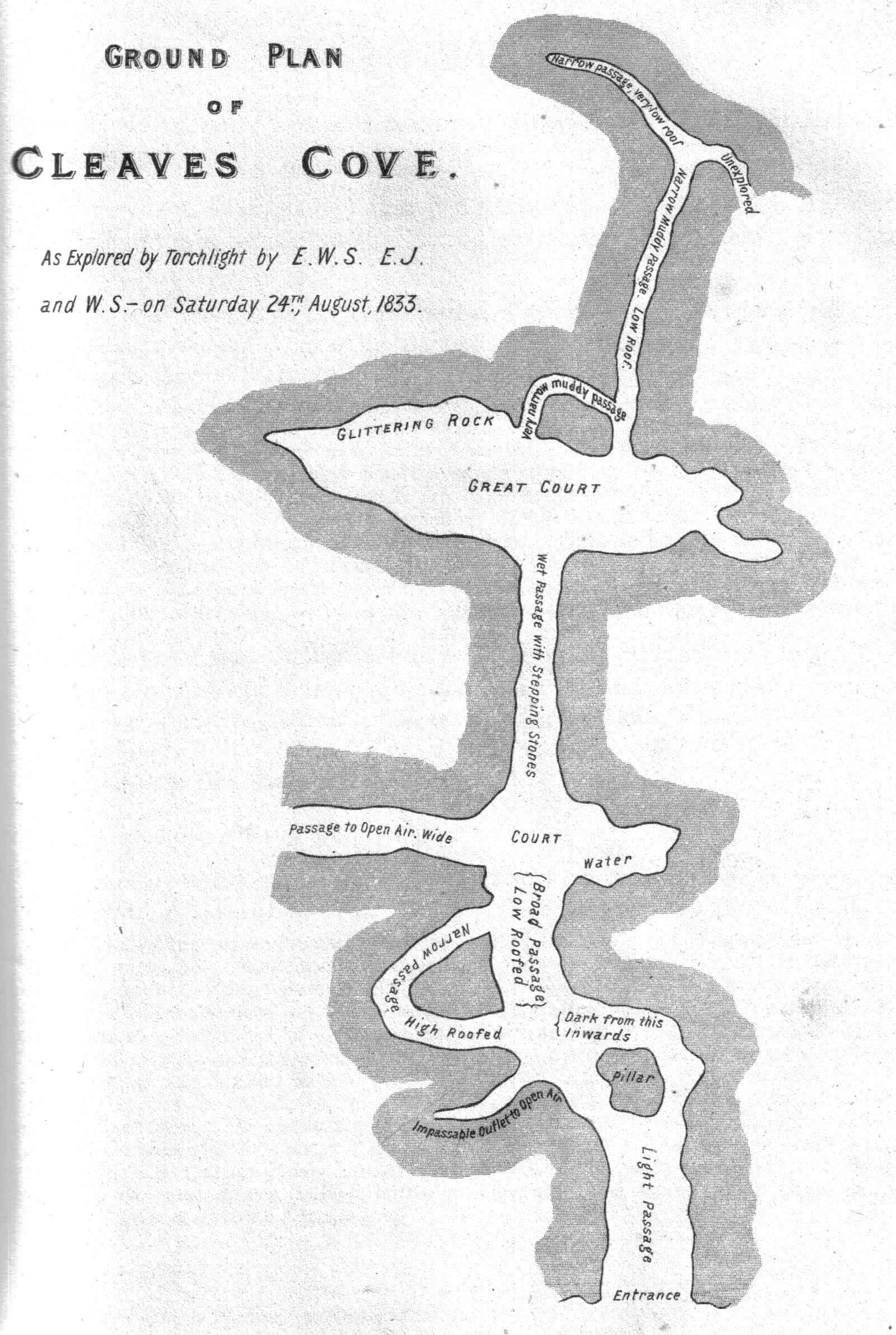 An 1833 plan of the Cleeve Cove cave system on the Dusk Water, near Dalry / Kilwinning, North Ayrshire, Scotland. Rosser 10:16, 25 July 2007 (UTC) From Pont's Cunninghame, James Dobie, 1876.